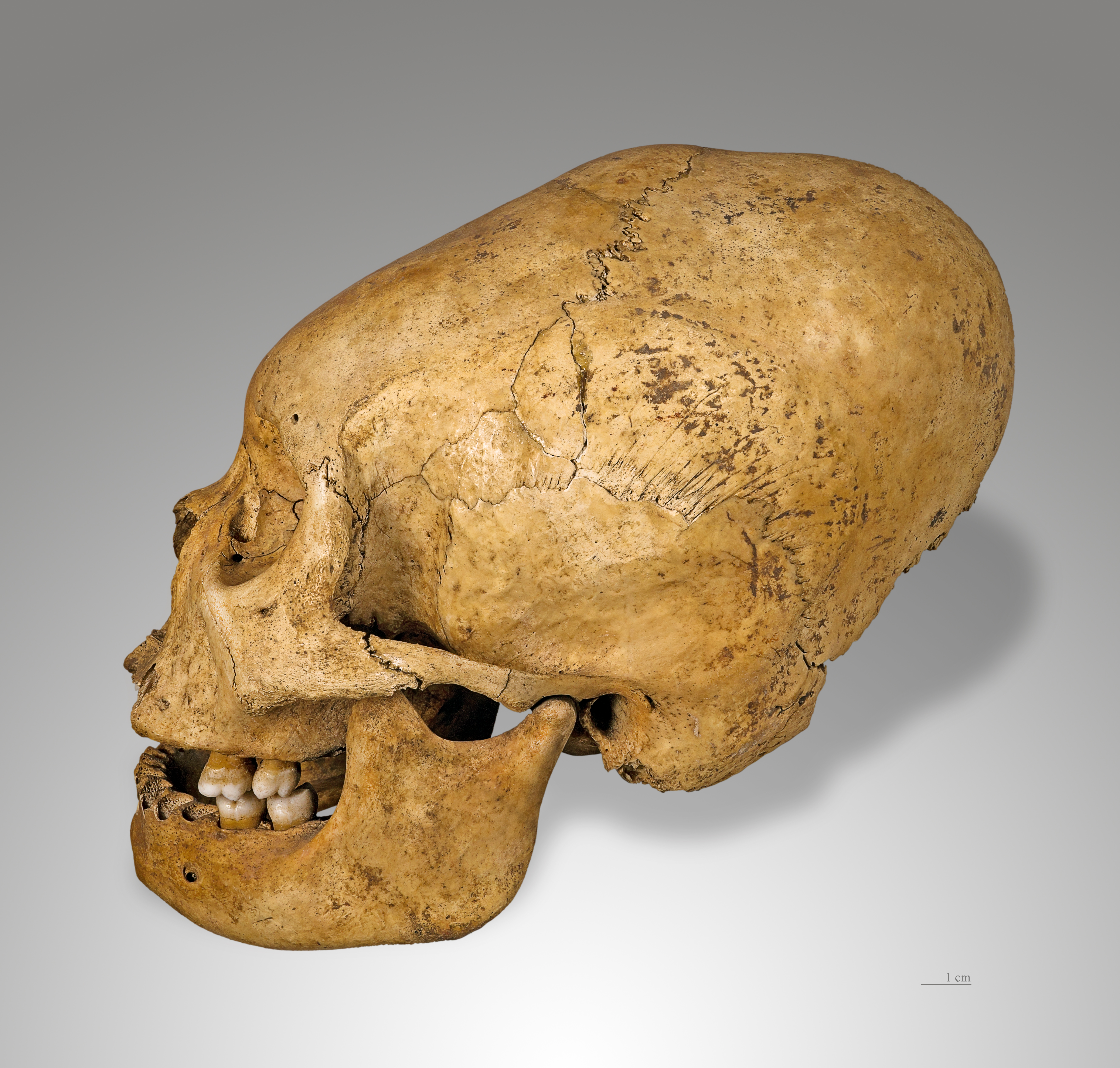 Homo sapiens sapiens - Deliberate deformity of the skull, "peruvian deformity " Proto-Nazca Culture (from 200 to 100 BC), Region of Nazca Peru.